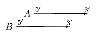 testcase3